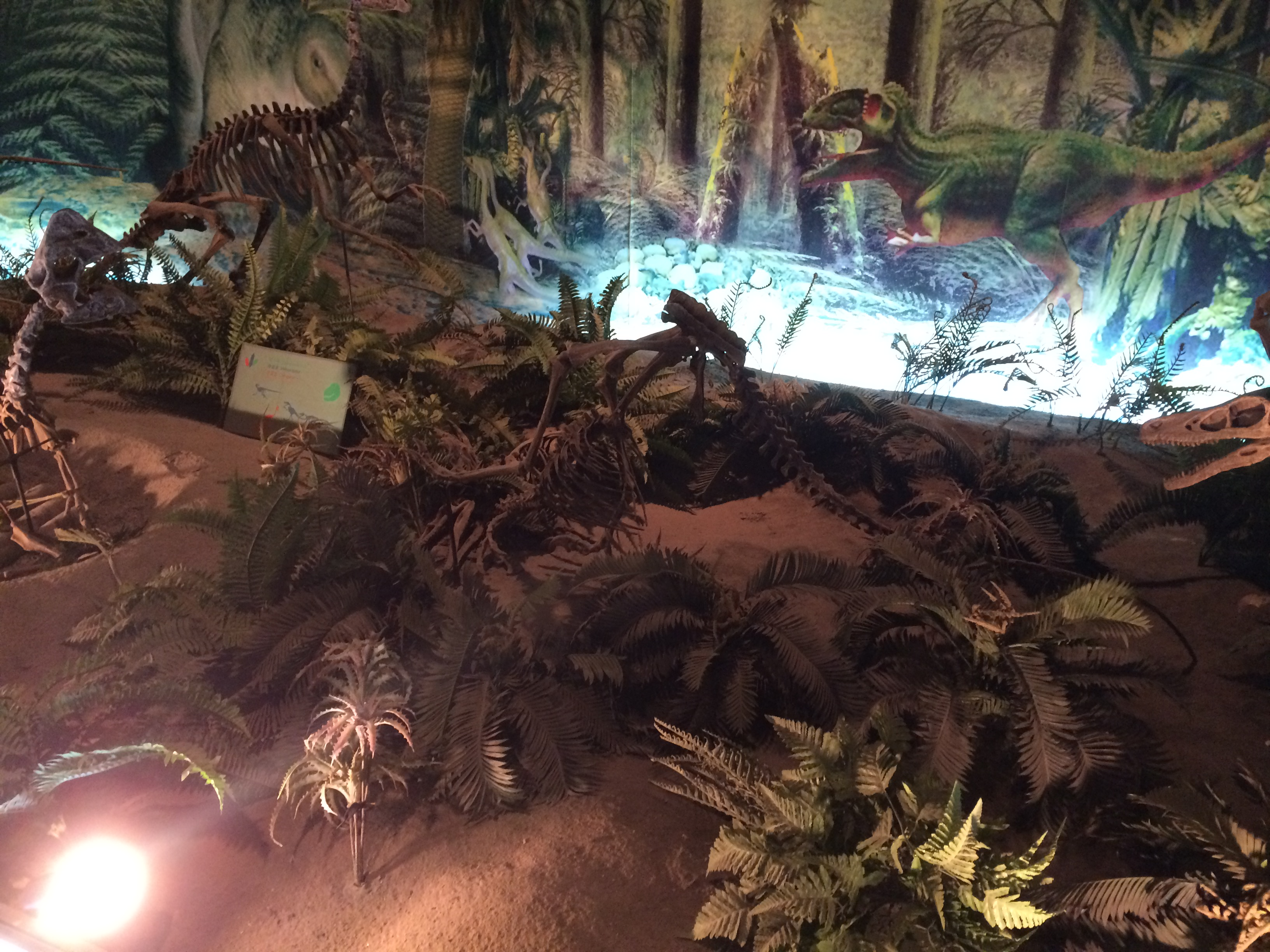 Velociraptors confronting Oviraptors at the Geological Museum of China